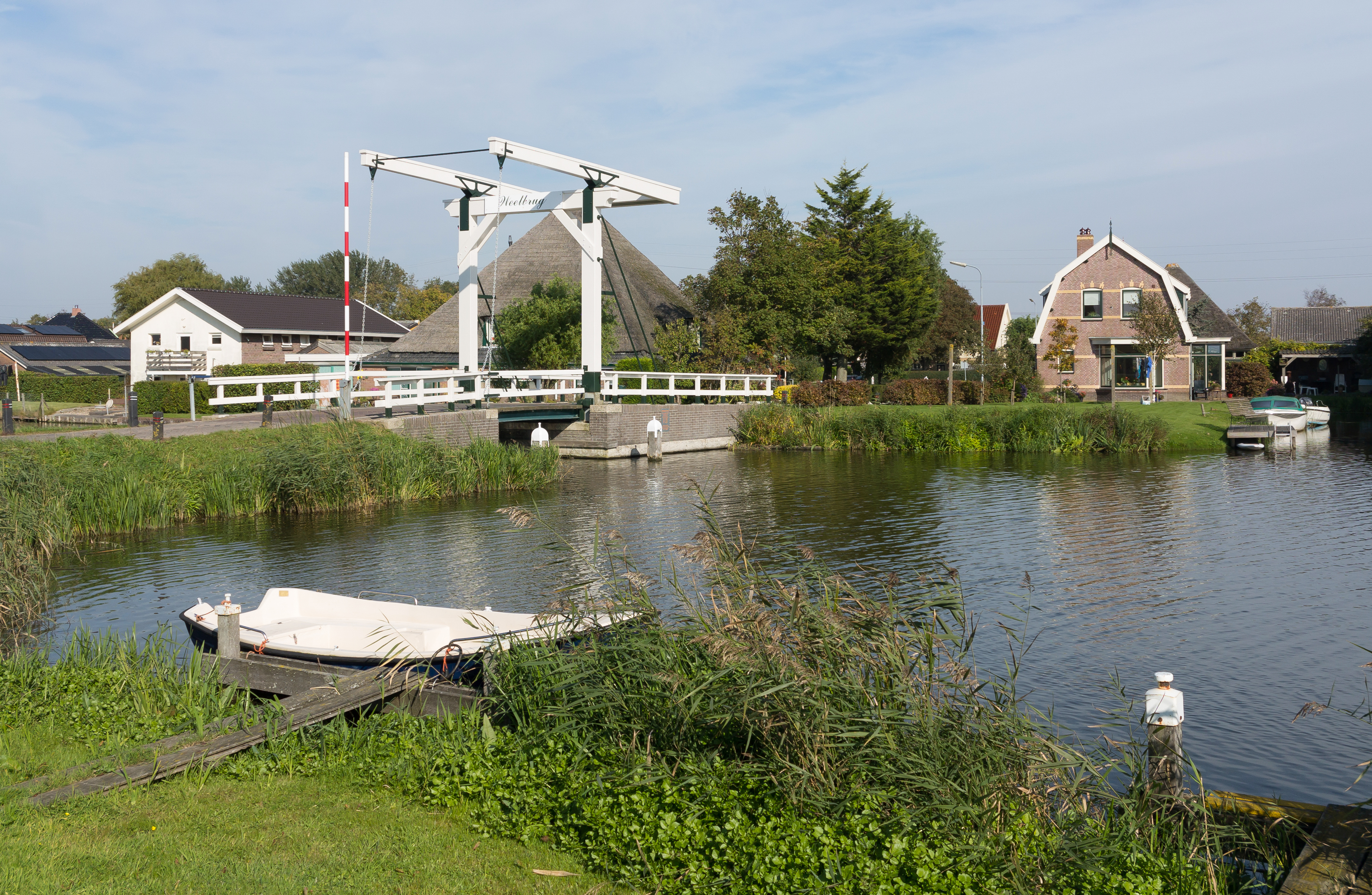 De Weel, bridge: de Heelbrug